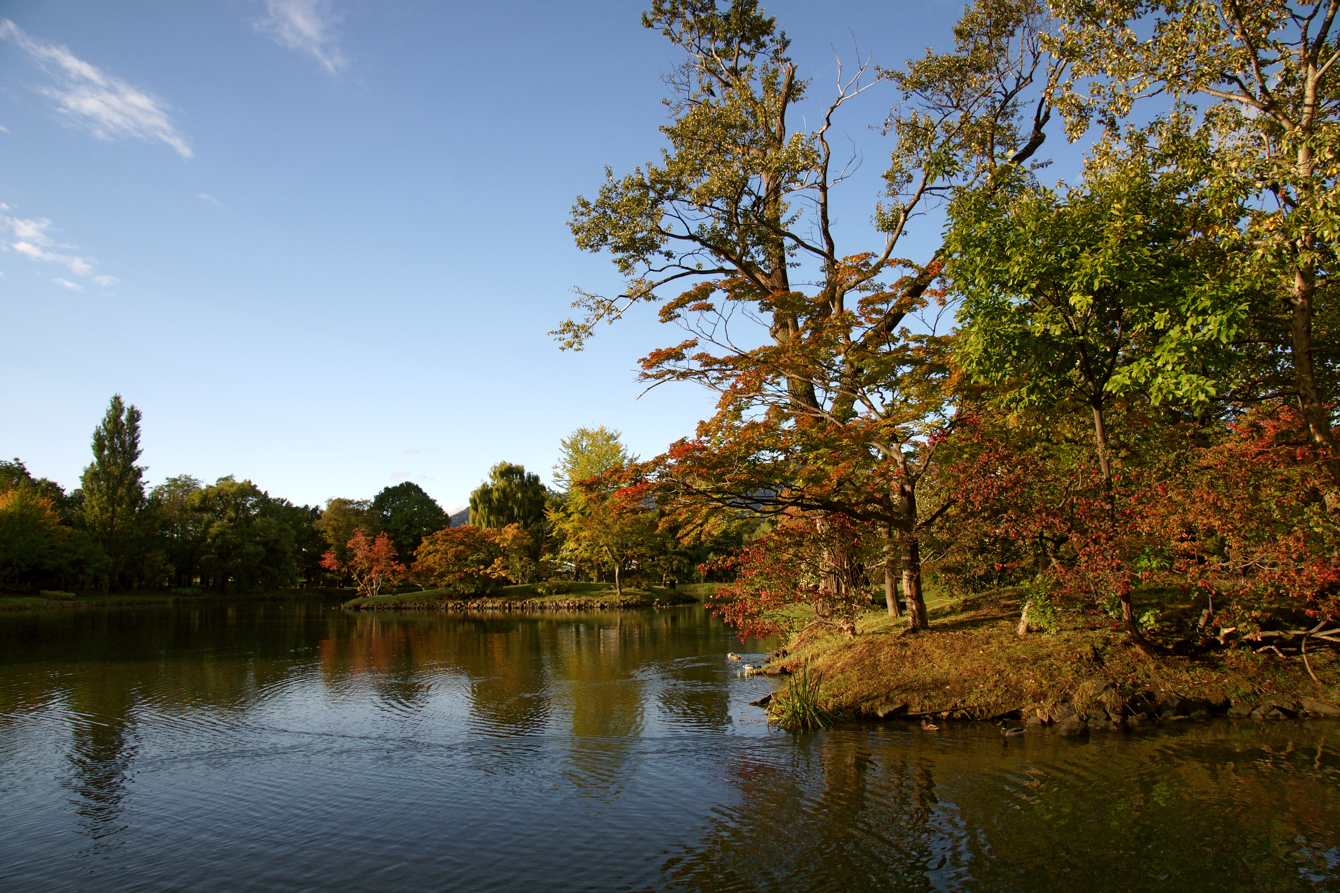 Nakajima Park, Sapporo, Hokkaido prefecture, Japan